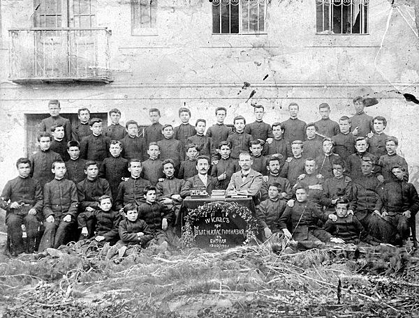 Bitolya Bulgarian High School Teachers